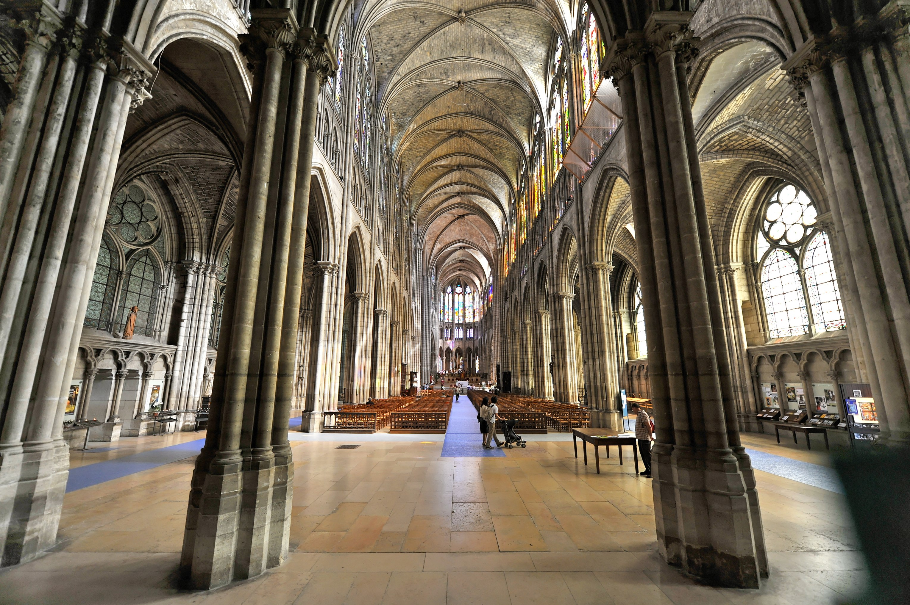 Interior of Saint-Denis